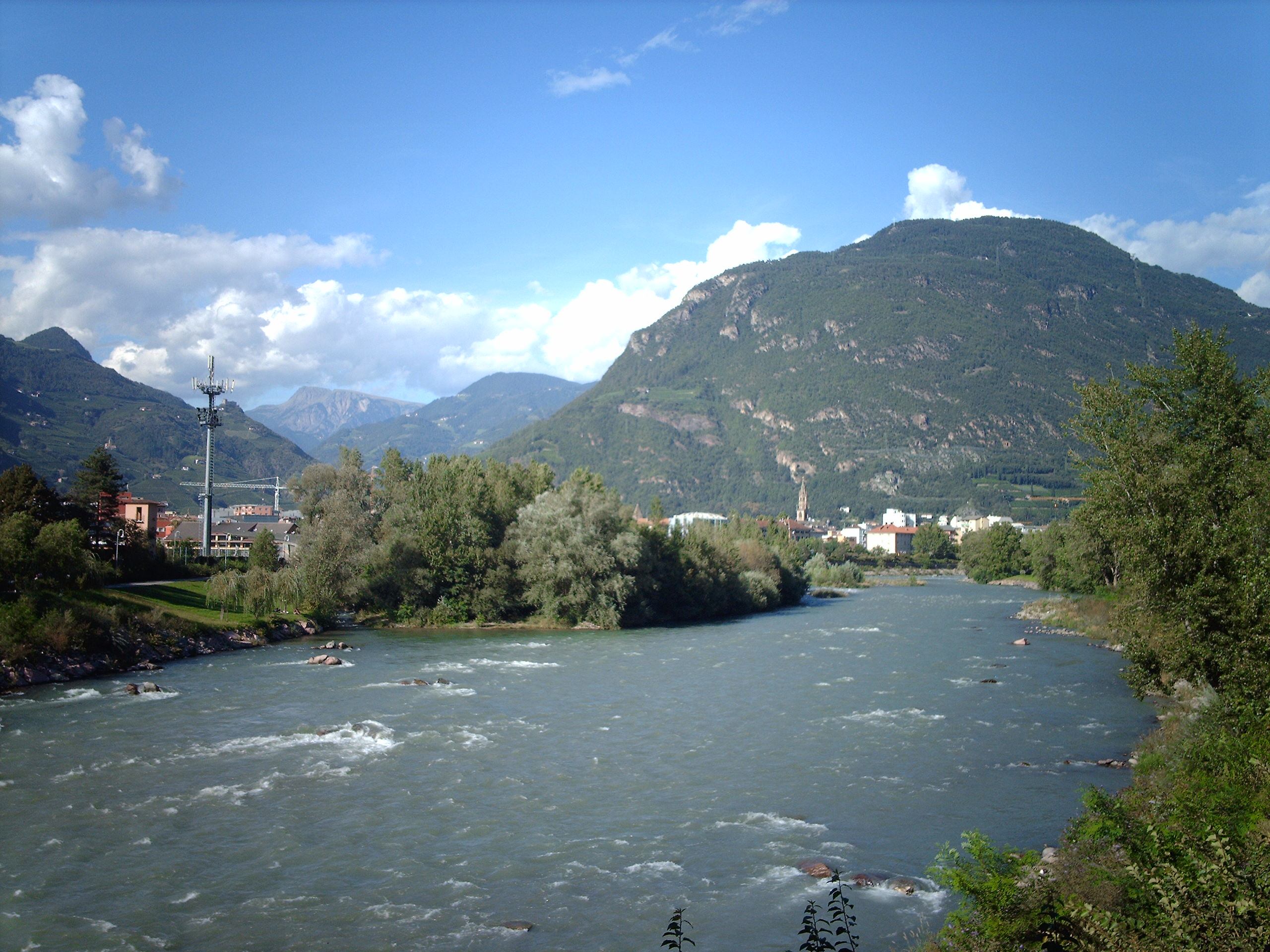 Bozen/Bolzano's Skyline from a bridge on the Eisack/Isarco river